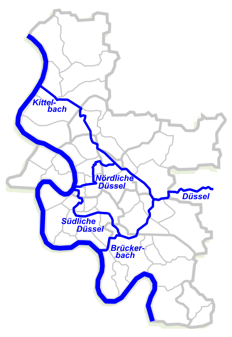 Maps of the Düssel delta in the city of duesseldorf | Karte des Düsseldeltas in Düsseldorf